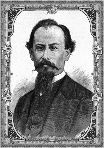 Self-portrait of Miguel Miramón, Lithograph (1870-1907).